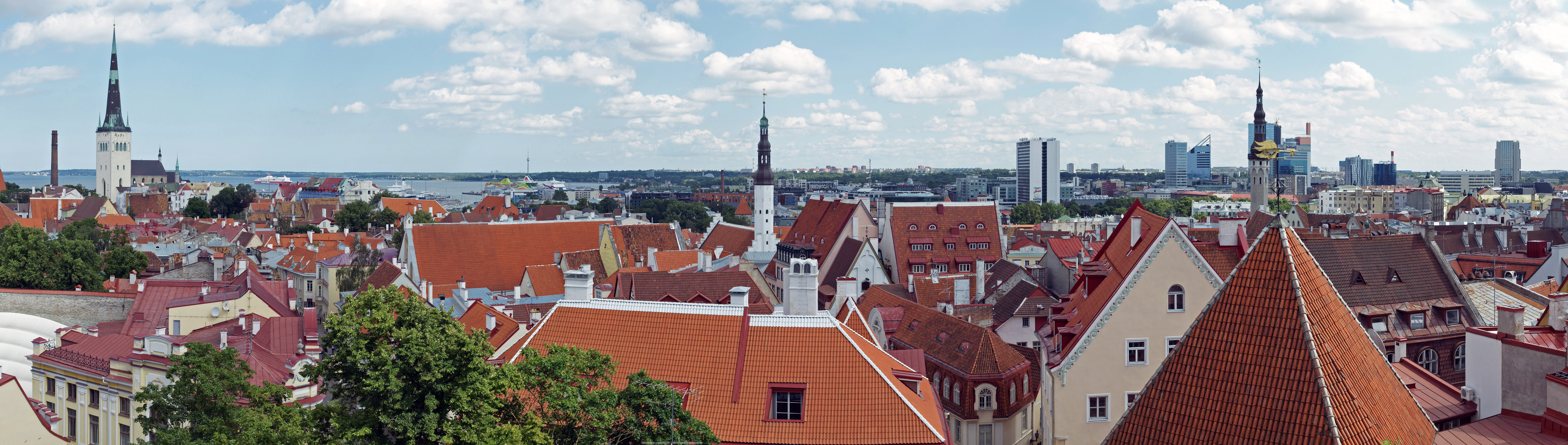 Tallinn